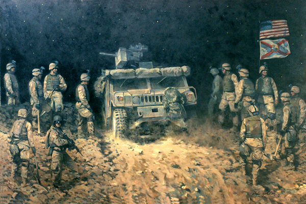 This oil on canvas painting done by Sgt. 1st Class Elzie Golden in 2005 depicts members of the 2nd Battalion, 124th Infantry Regiment clearing berms for Special Forces Soldiers to enter into Iraq, March 19, 2003.